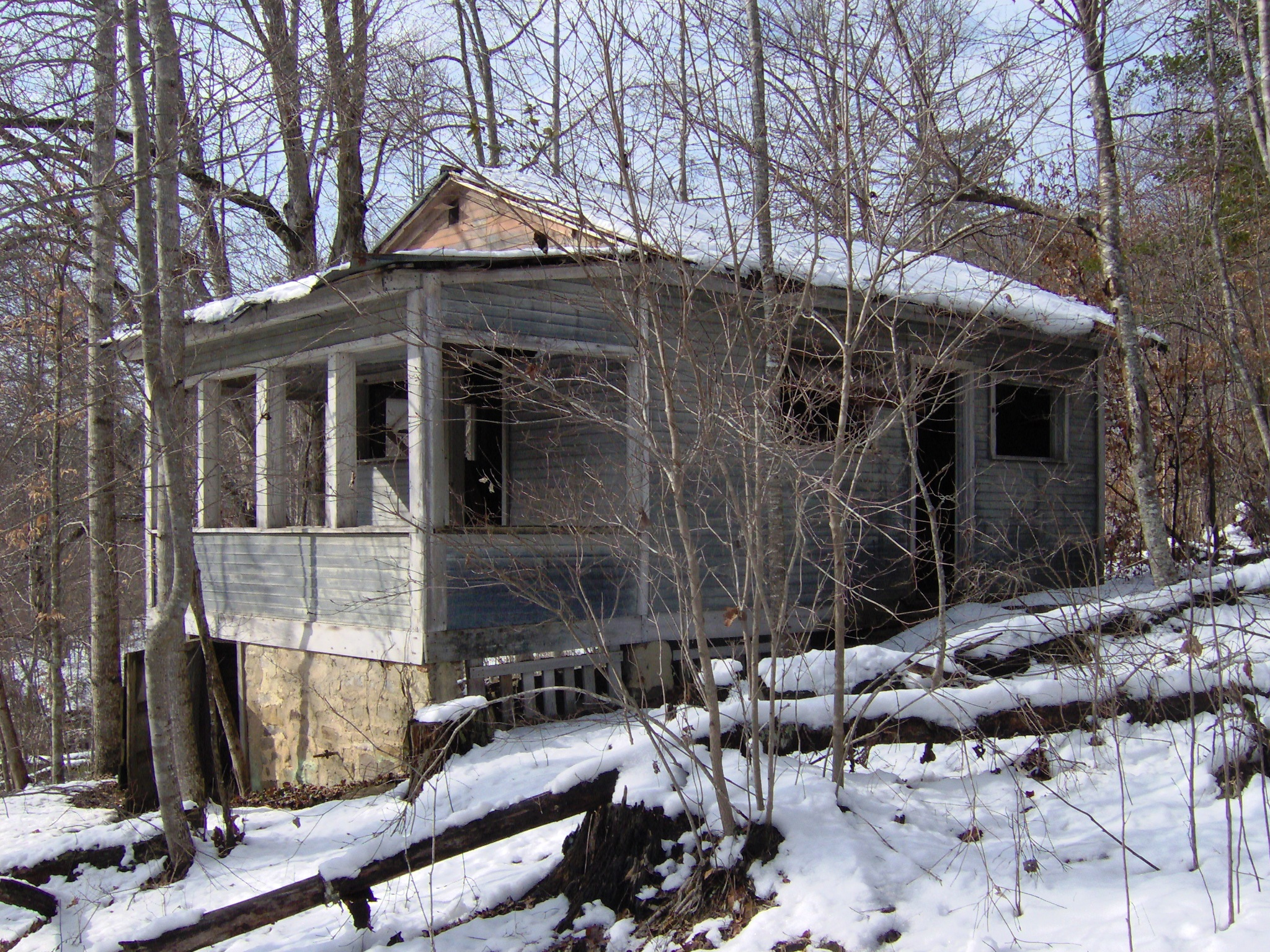 A teacher's cottage at the Vardy Community School in the Vardy Blackwater community (Newmans Ridge area) of Hancock County, Tennessee, USA. This cottage is a contributing ancillary structure of the Vardy School Community Historic District, and is located immediately east of the Vardy Community School ruins. Special thanks to John Stansberry for helping me find this, and to local resident David Collins for showing us around.